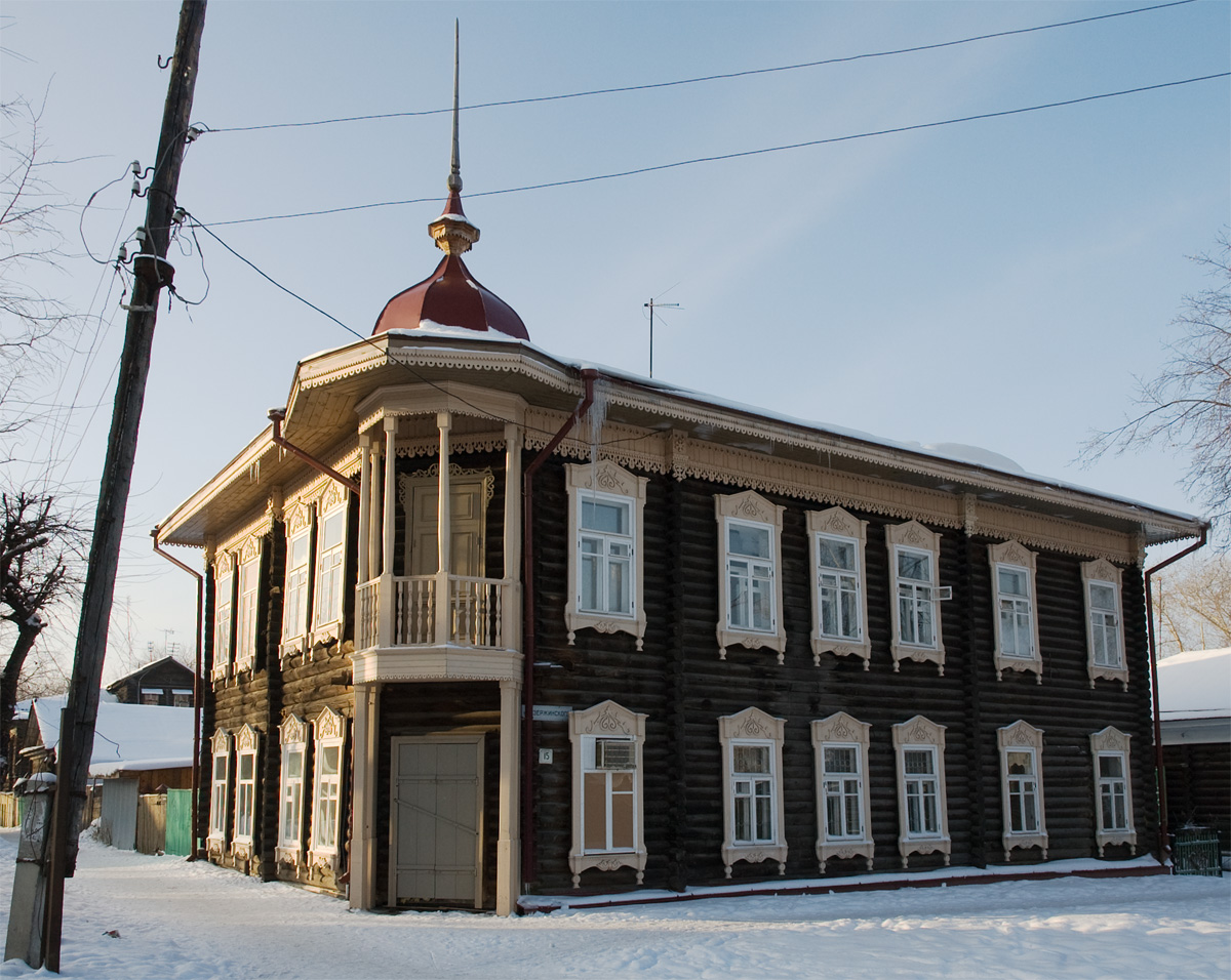 перекрёсток ул. Герцена, 40 и ул. Дзержинского, 15